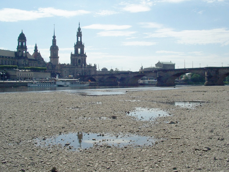 Low water of the Elbe River in Dresden (June 2005)